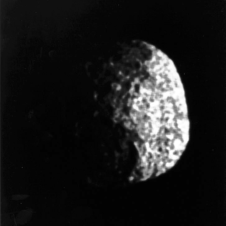 This image of Neptune's satellite 1989N1 was obtained on Aug. 25, 1989 from a range of 146,000 kilometers (91,000 miles) by Voyager 2. The resolution is about 2.7 kilometers (1.7 miles) per line pair. The satellite, seen here about half-illuminated, has an average radius of some 200 kilometers (120 miles). It is dark (albedo 6 percent) and spectrally grey. Hints of crater-like forms and groove-like lineations can be discerned. The apparent graininess of the image is caused by the short exposure necessary to avoid significant smear. The Voyager Mission is conducted by JPL for NASA's Office of Space Science and Applications.